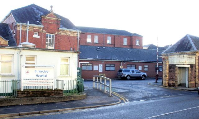 Entrance to St Woolos Hospital, Newport On Stow Hill, just west of St Woolos Cathedral. For many decades, until the 1930s, this was one of the most feared locations in Newport. As Woolaston House, it was Newport Workhouse. Workhouses were used for poor relief in the Victorian era (and later) throughout the UK. They were places of dread for the needy poor and elderly, who had no alternatives in the days before the Welfare State. Books such as Charles Dickens' Oliver Twist highlighted conditions in the workhouse. Workhouse life was deliberately made as harsh and degrading as possible so that only the truly destitute would apply.